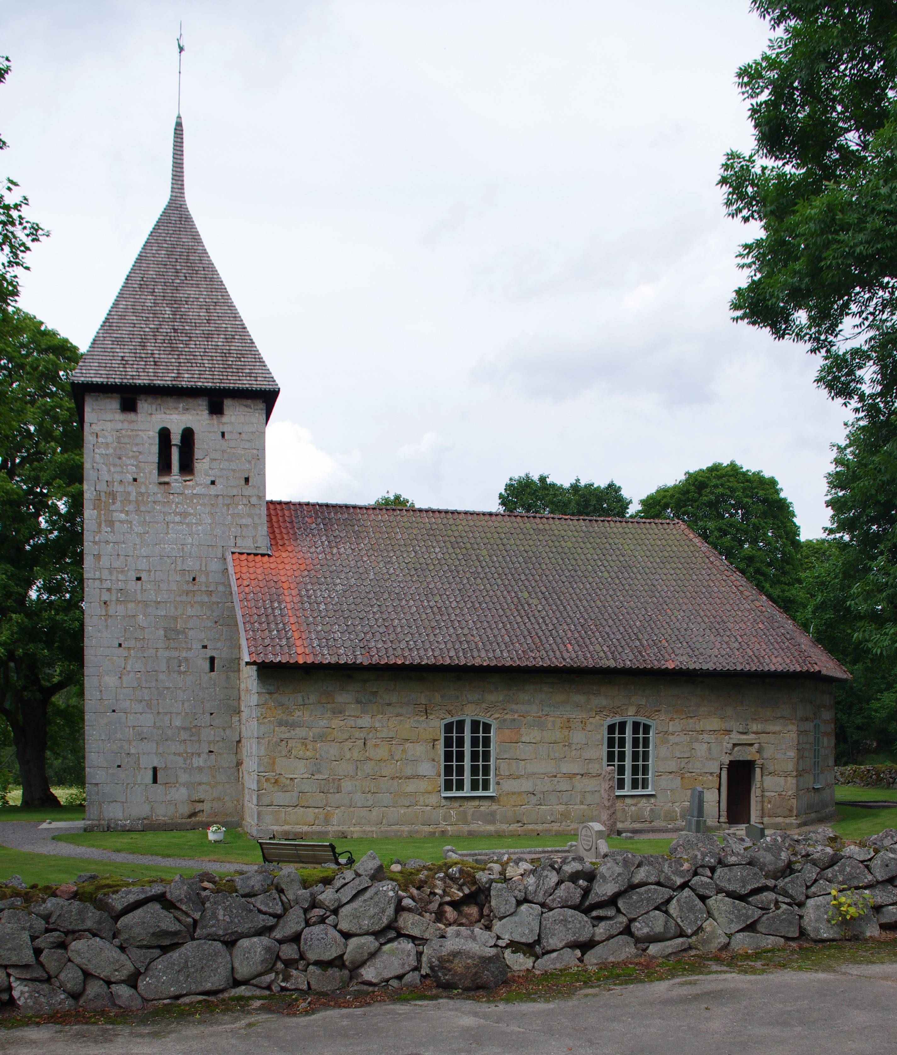 Härja church in Västergötland, Sweden.